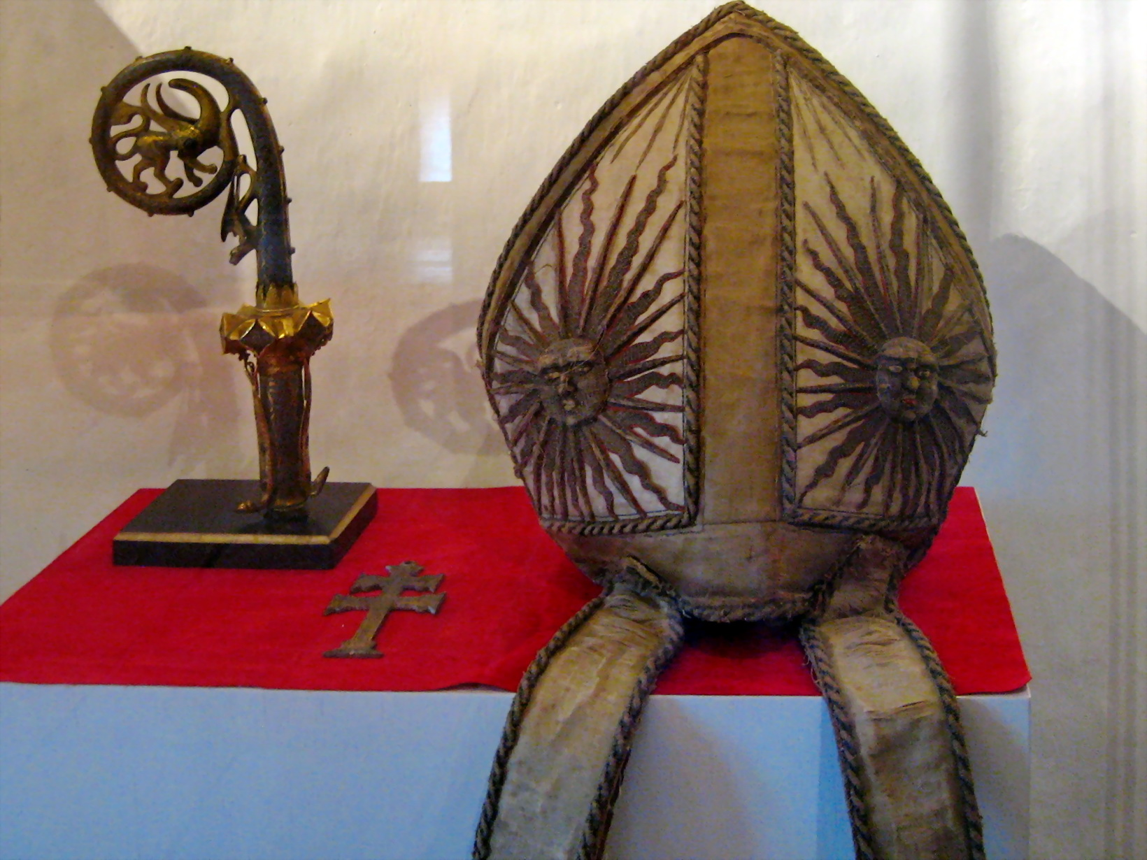 'Stadtmuseum Rapperswil', Rapperswil-Jona, 'Klosterschatz', former Premonstratensian Monastery Rüti (ZH) (1525)